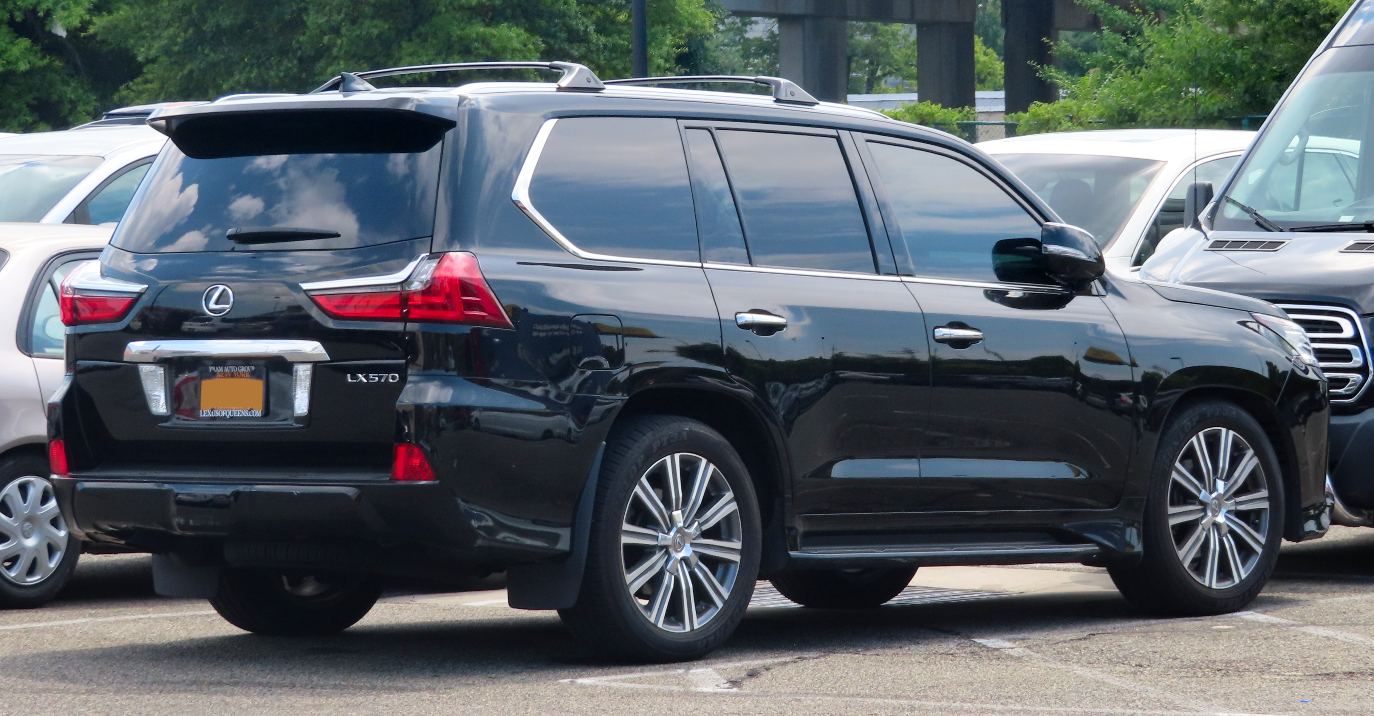 A 2016 Lexus LX 570 photographed in Flushing, Queens, New York, USA